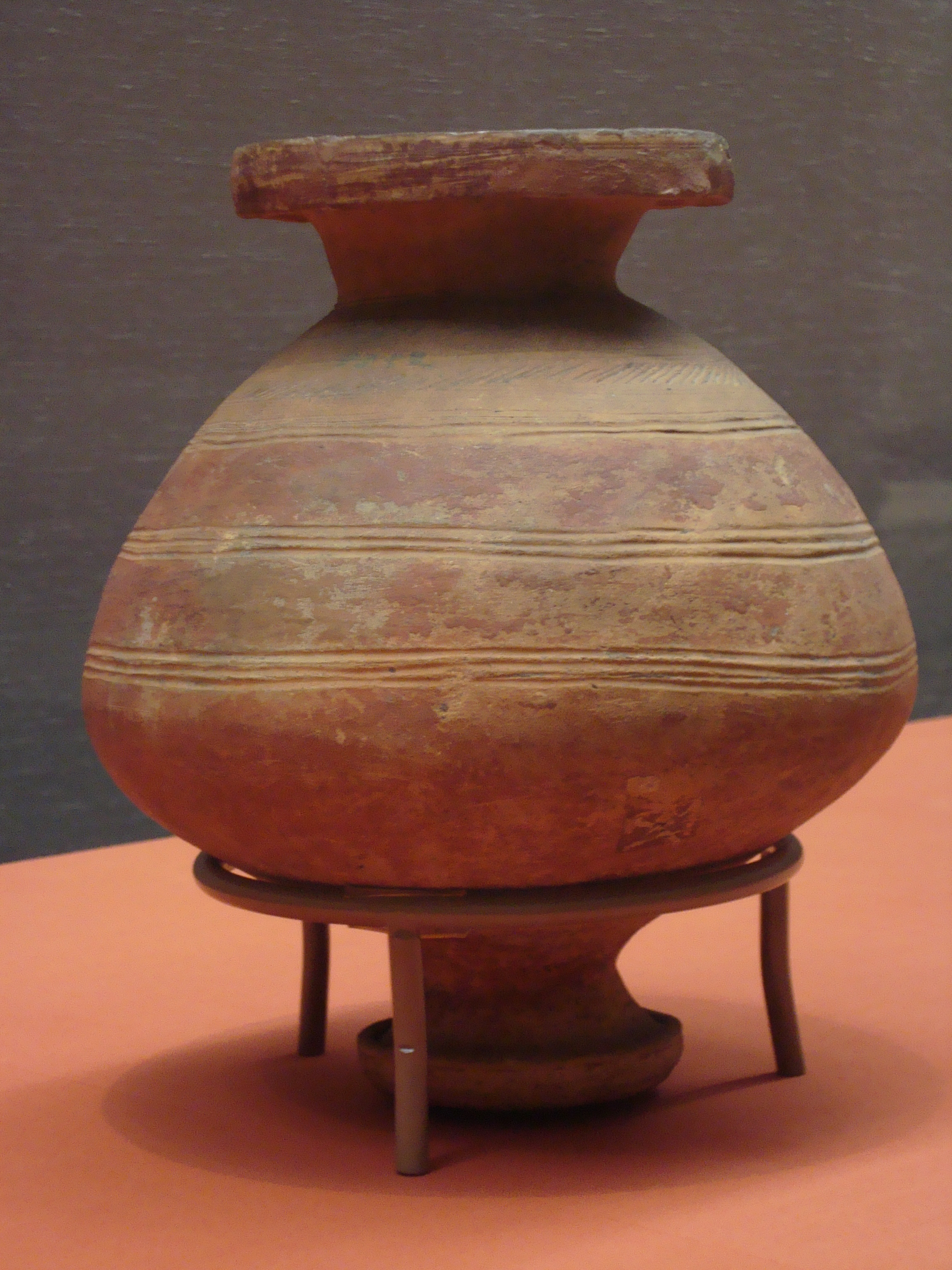 Footed Jar, Yayoi period, Tokyo National Museum, Important Cultural Property